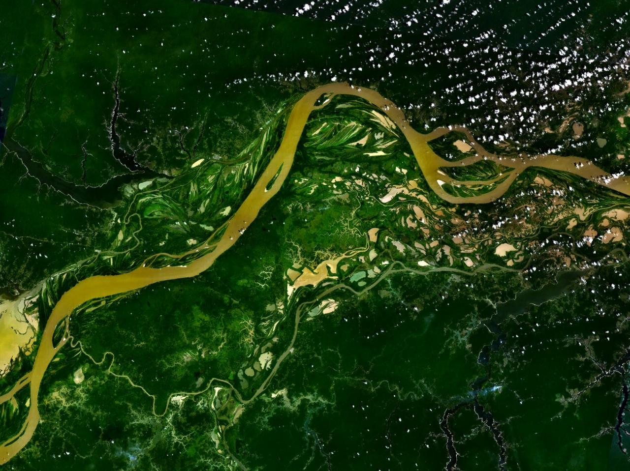 Amazon river flowing through the Amazon rainforest.